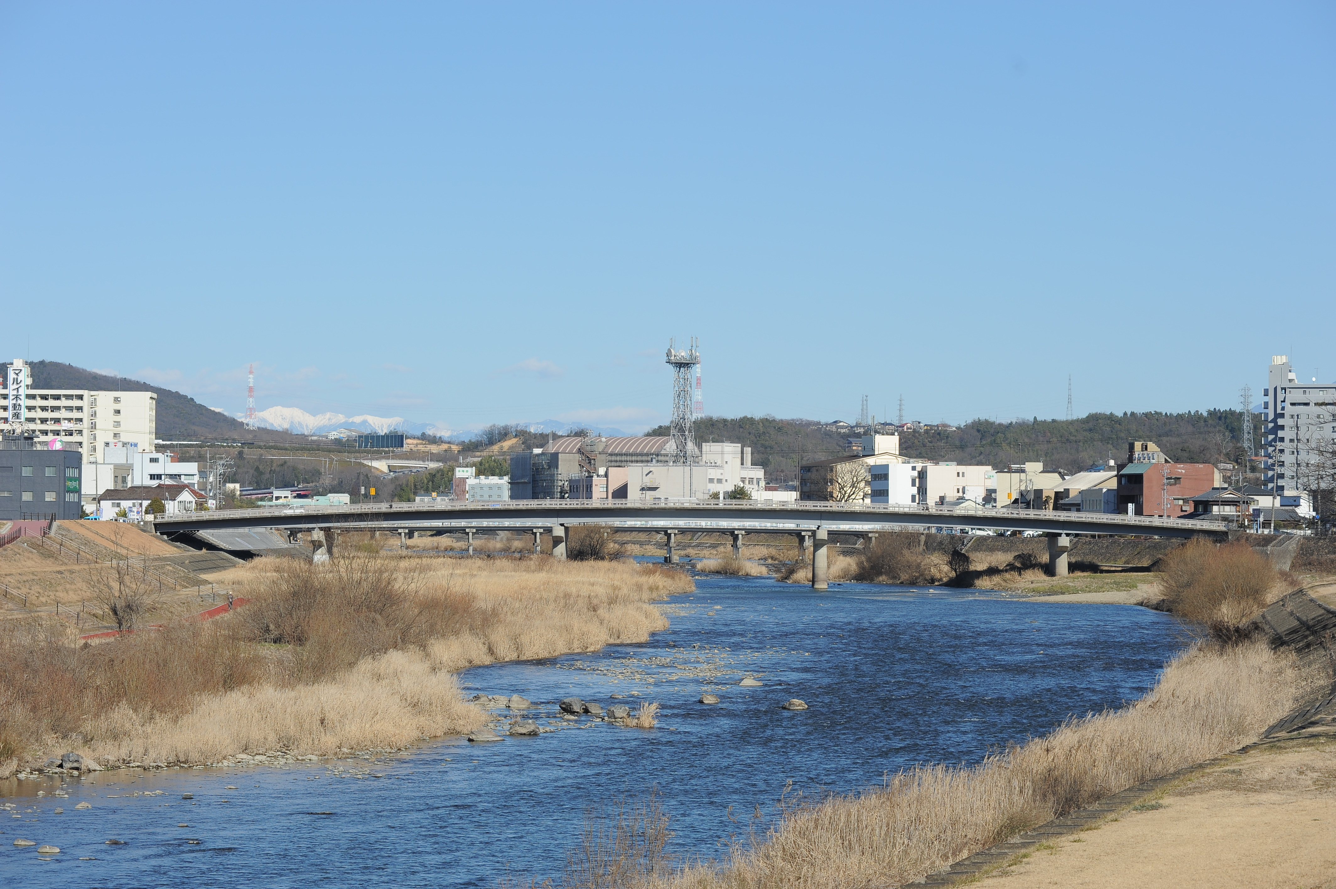 Toto Ohashi bridge, Tajimi, Gifu